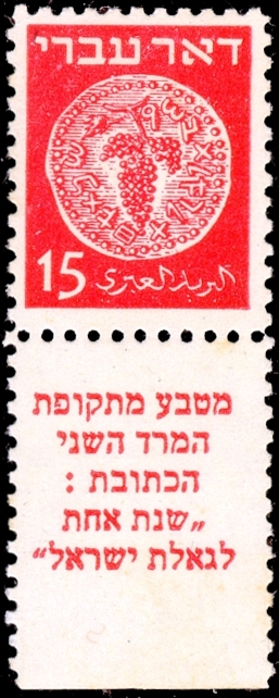 "Hebrew Mail" stamp, from the first and provisional stamp series of the State of Israel, Issued hours after The Declaration of Independence - 15 mil - Wrong Tab